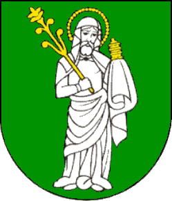 Coat of arms of Kysucké Nové Mesto, Slovakia